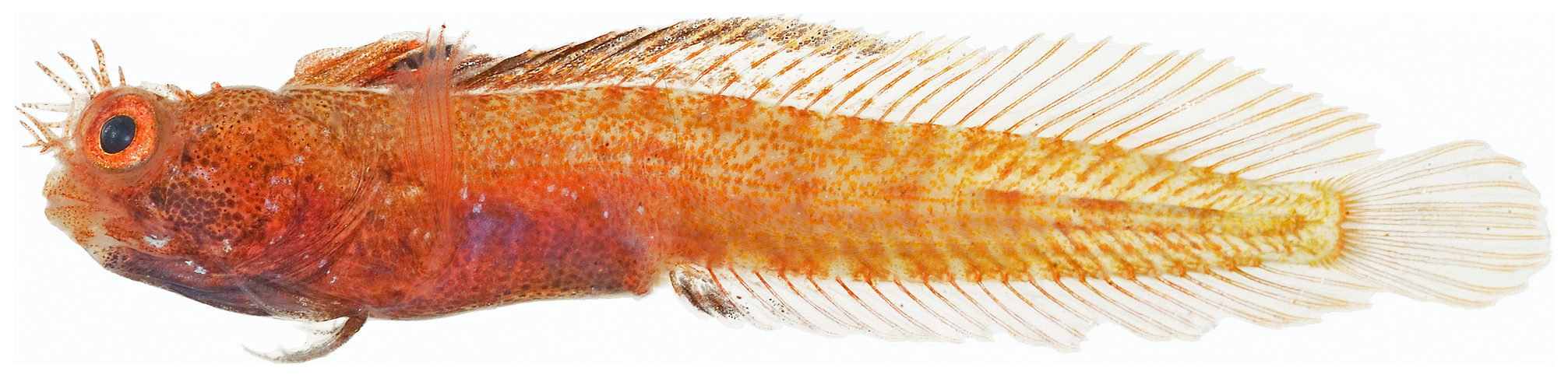 Acanthemblemaria aspera (Longley, 1927)—roughhead blenny, 19.7 mm SL, adult male. Photo by JT Williams.